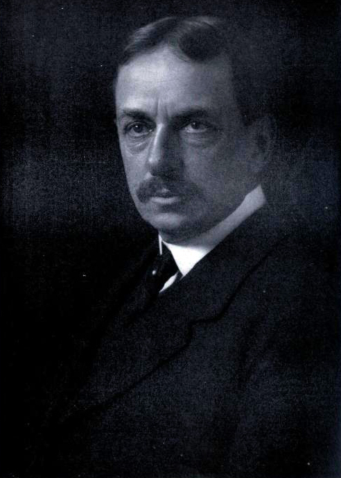 Henry Fairfield Osborn.